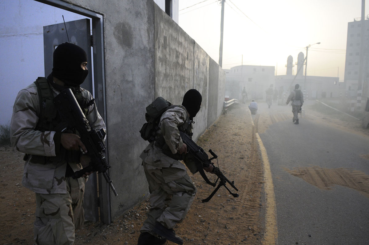 April 2, 2012 Last week, the Desert Reconnaissance Battalion conducted a drill in the Urban Warfare Training Center, simulating fighting in populated cities. The drill was conducted to assure maximum efficiency while fighting in urban centers by focusing solely on hostile targets. The Desert Reconnaissance Battalion, also known as "the natural detectives" is comprised almost entirely of Bedouins whom, though exempt from service, volunteered to serve in the IDF. These soldiers use their unique abilities to track down infiltrators and other threats in the vast Israeli desert. Photographed by Cpl. Gal Asuach, IDF Spokesperson's Unit. Featured as Photo of the Day on April 10, 2012 The Israel Defense Forces Facebook The Israel Defense Forces blog Follow us on Twitter